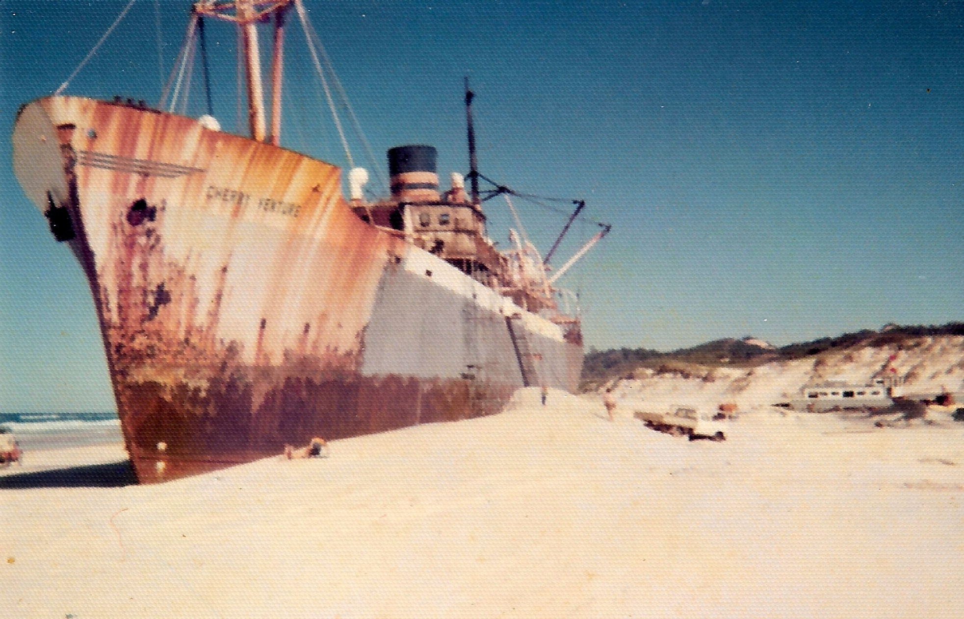 Photo of Cherry Venture shipwreck at Teewah Beach, Queensland, Australia